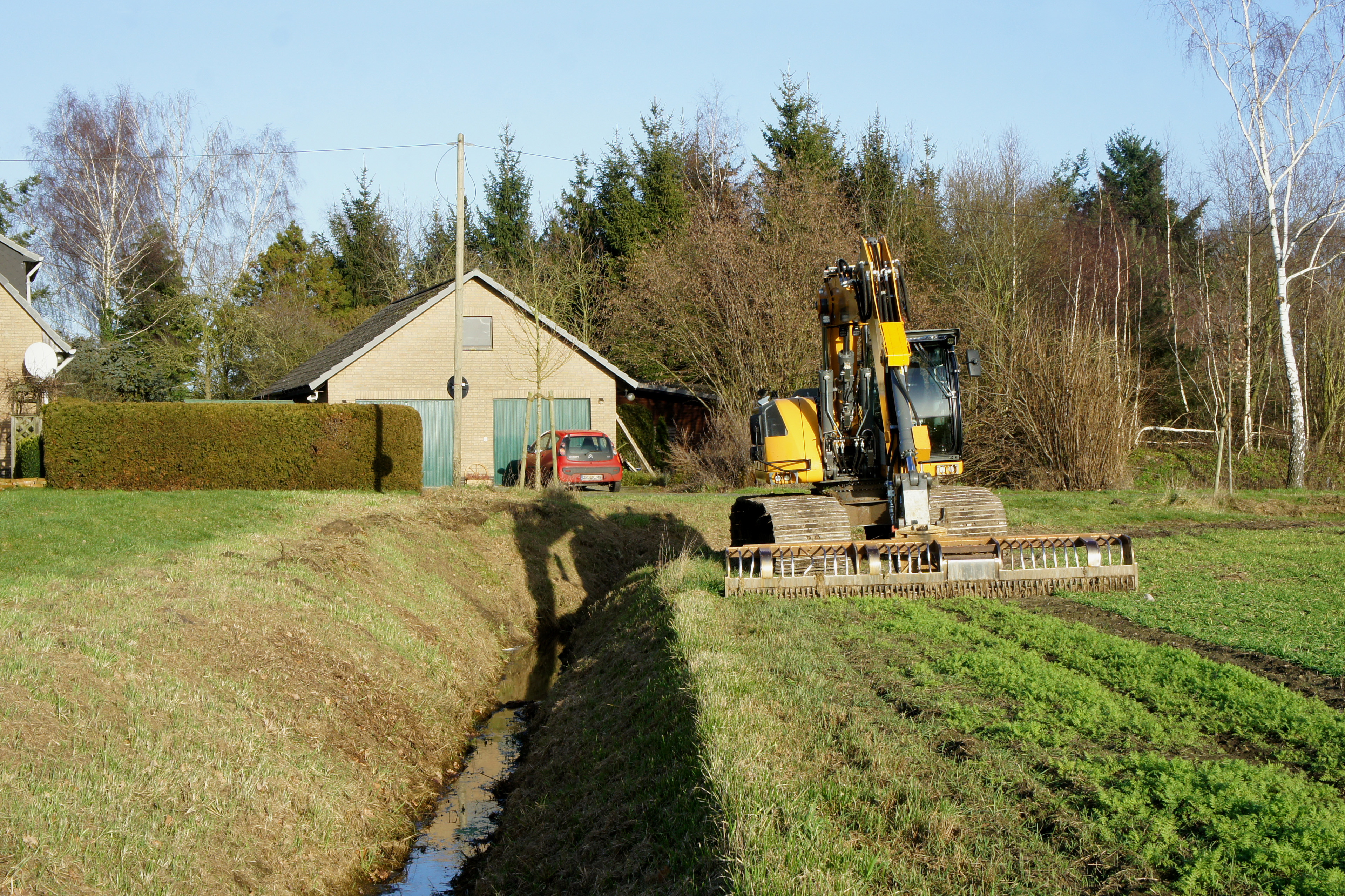 The Immer Baeke near Bassumer Weg.